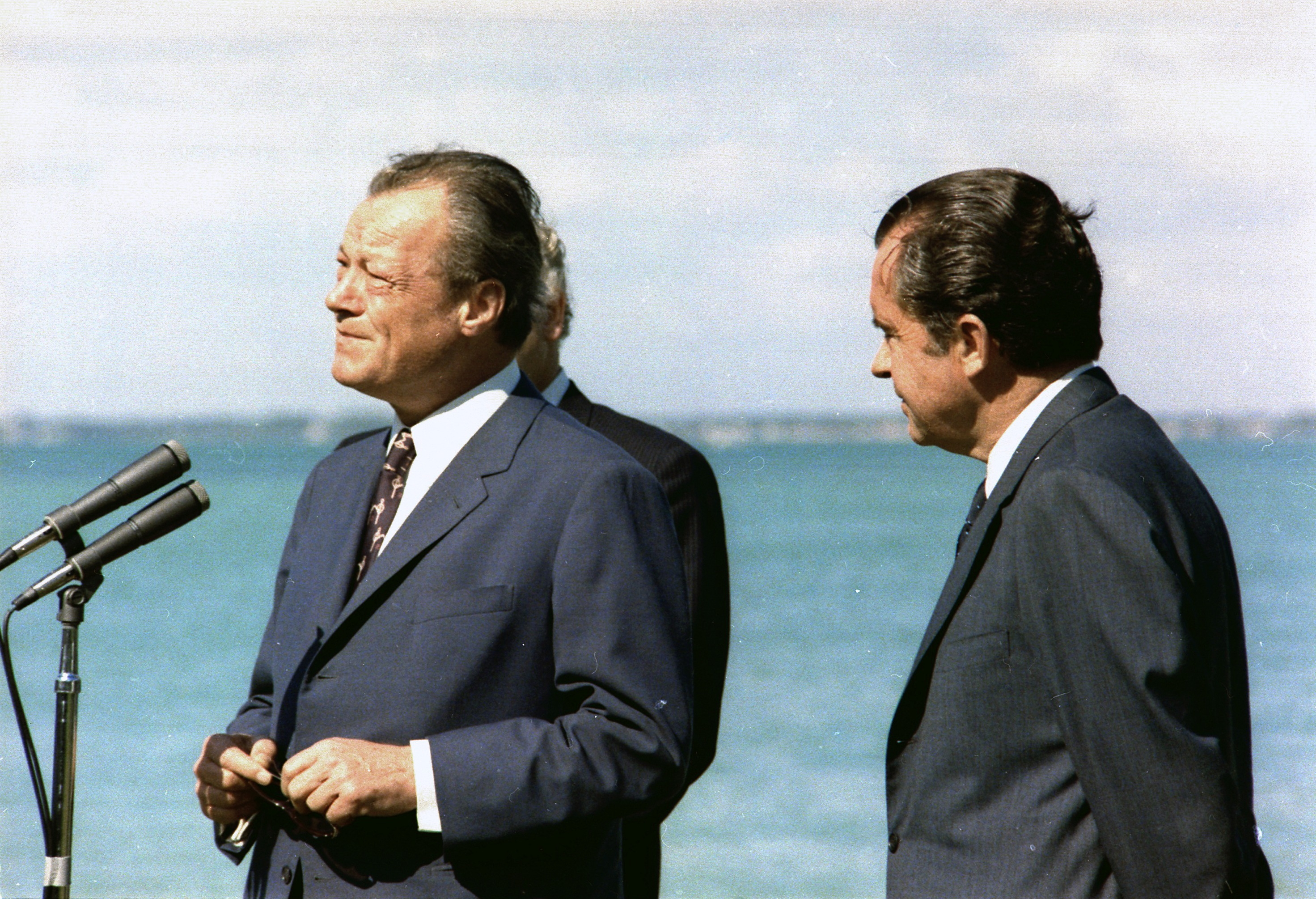 Bundeskanzler Willy Brandt and US-President Richard Nixon